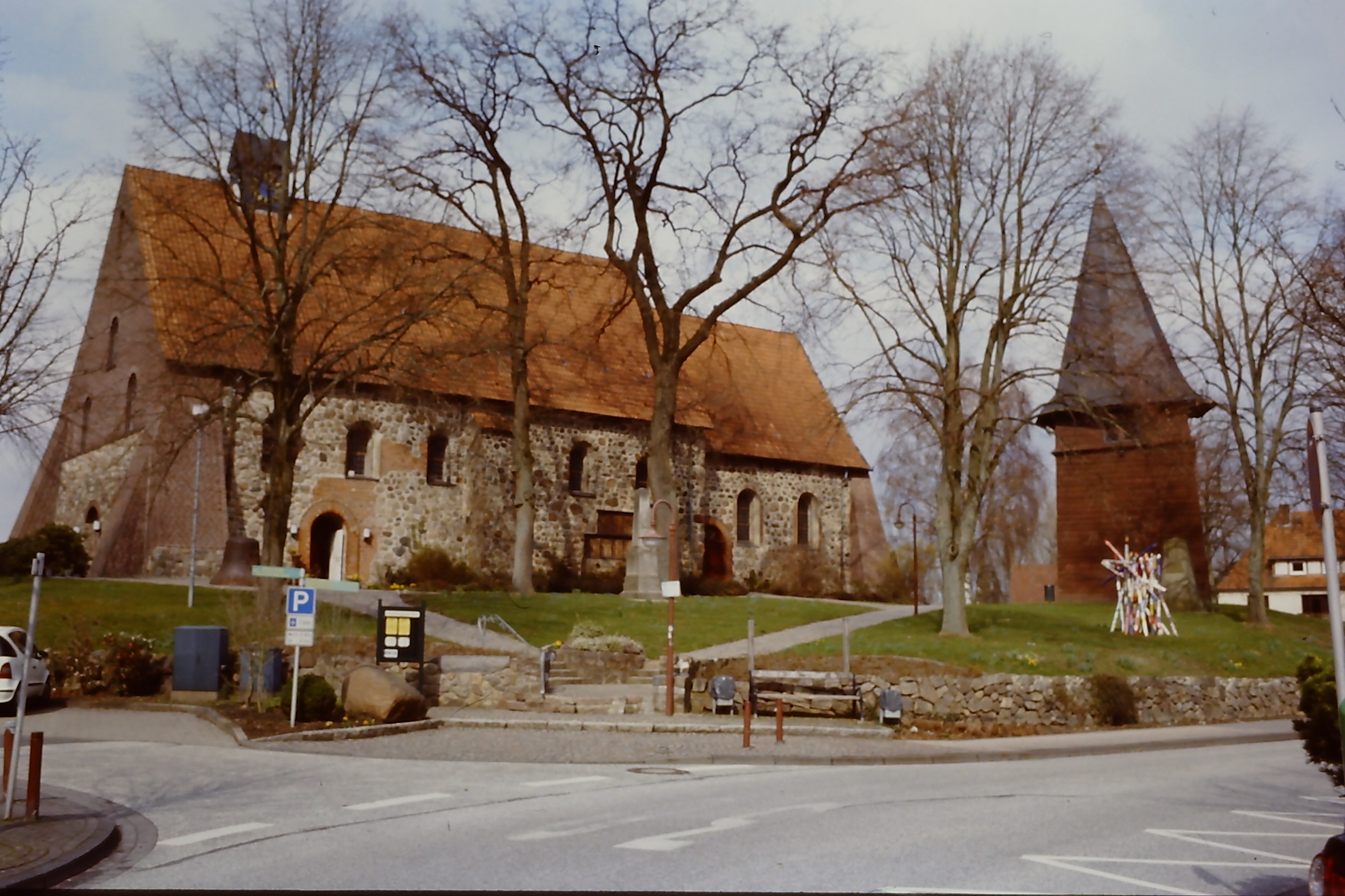 St. Mauritius-Church in Hittfeld.A Fieldstone church from the 13th Century.